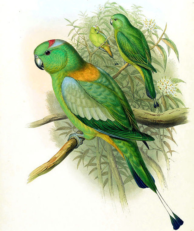 Squarer version of Prioniturus setarius = Prioniturus platurus[1]